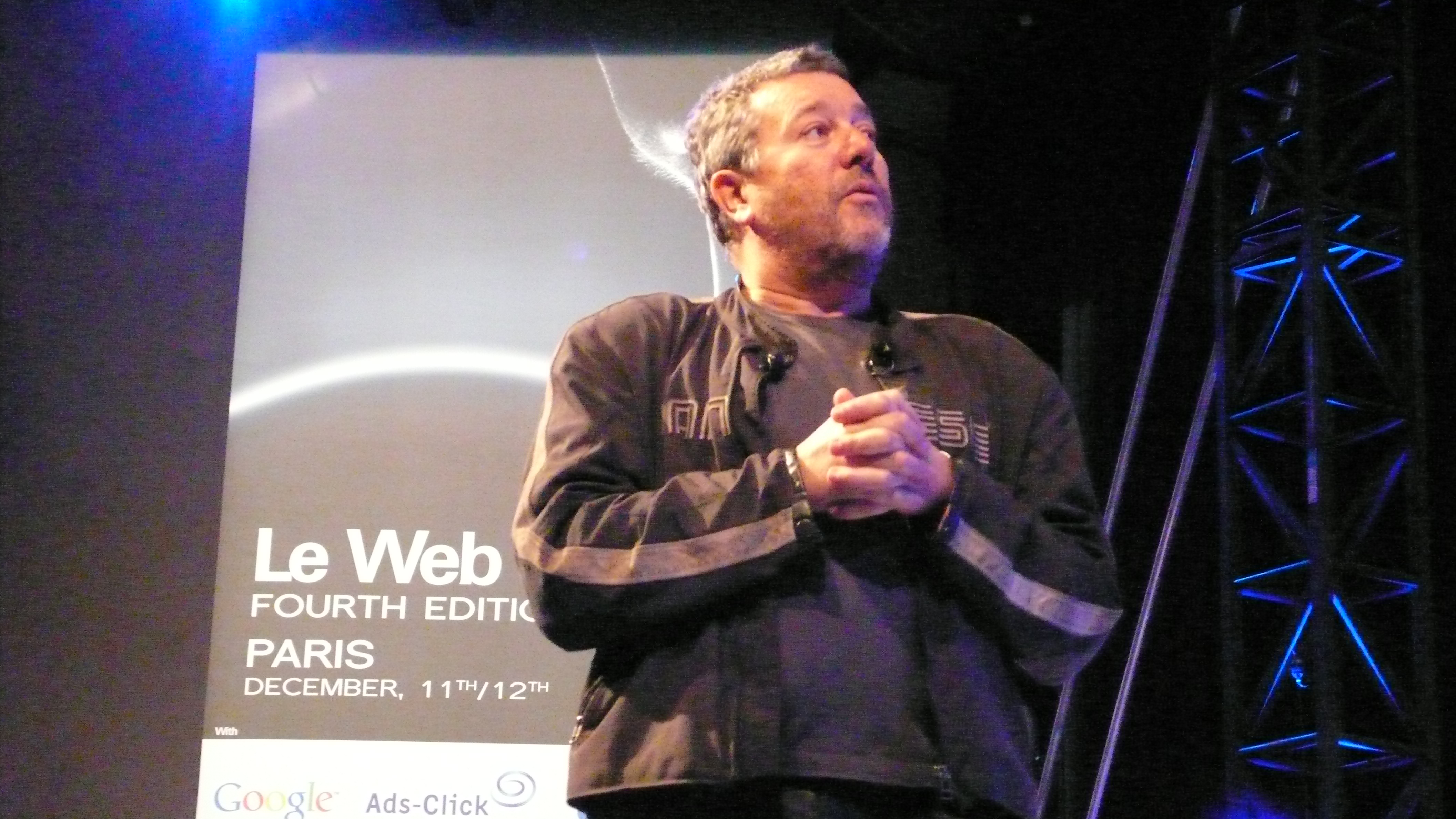 Philippe Starck at Le Web '07 in Paris.